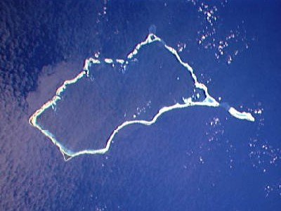 Mili and Knox (smaller to the left) Atolls in the Marshall Islands